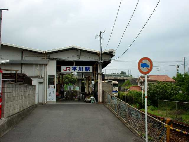 Hirakawa Station